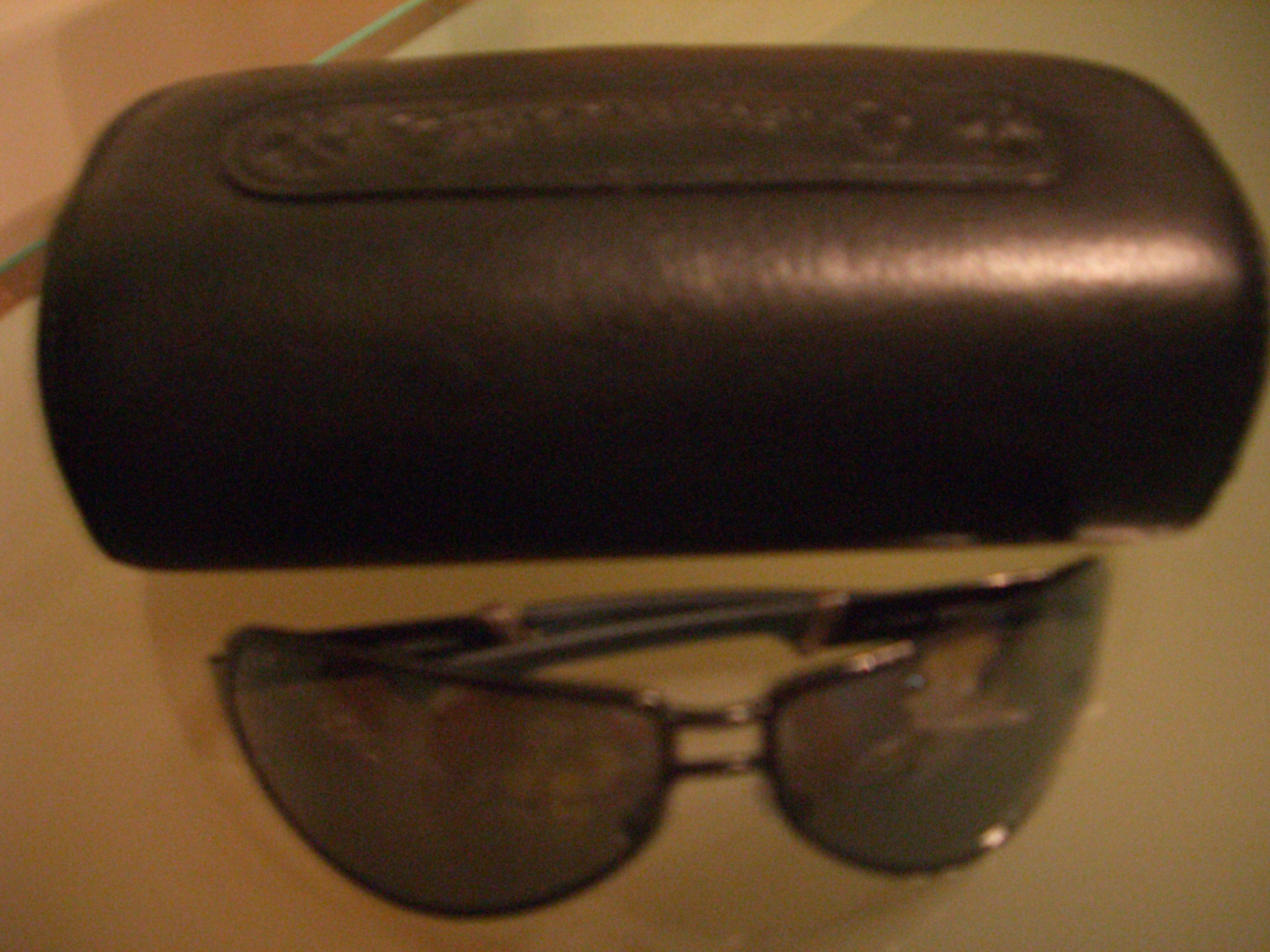 A picture taken by me.